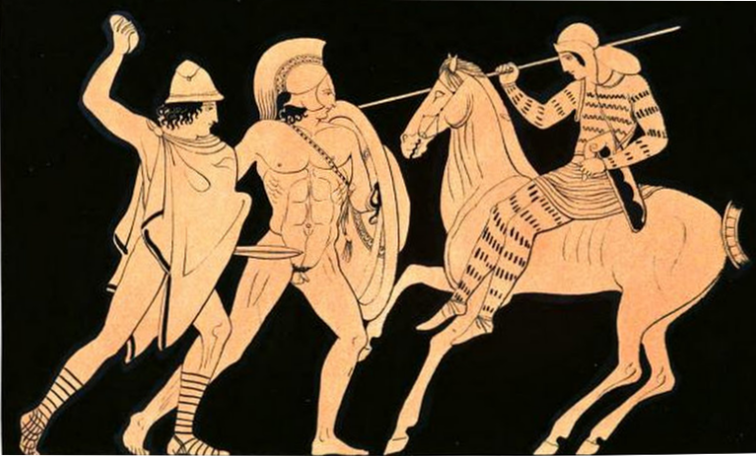 Theseus, Hippolyte